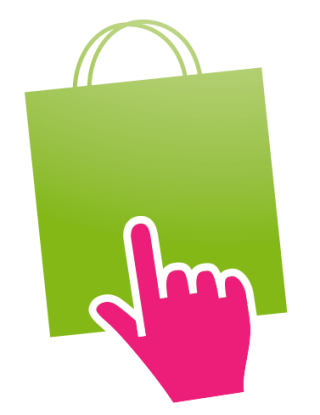 PrestaShop logo